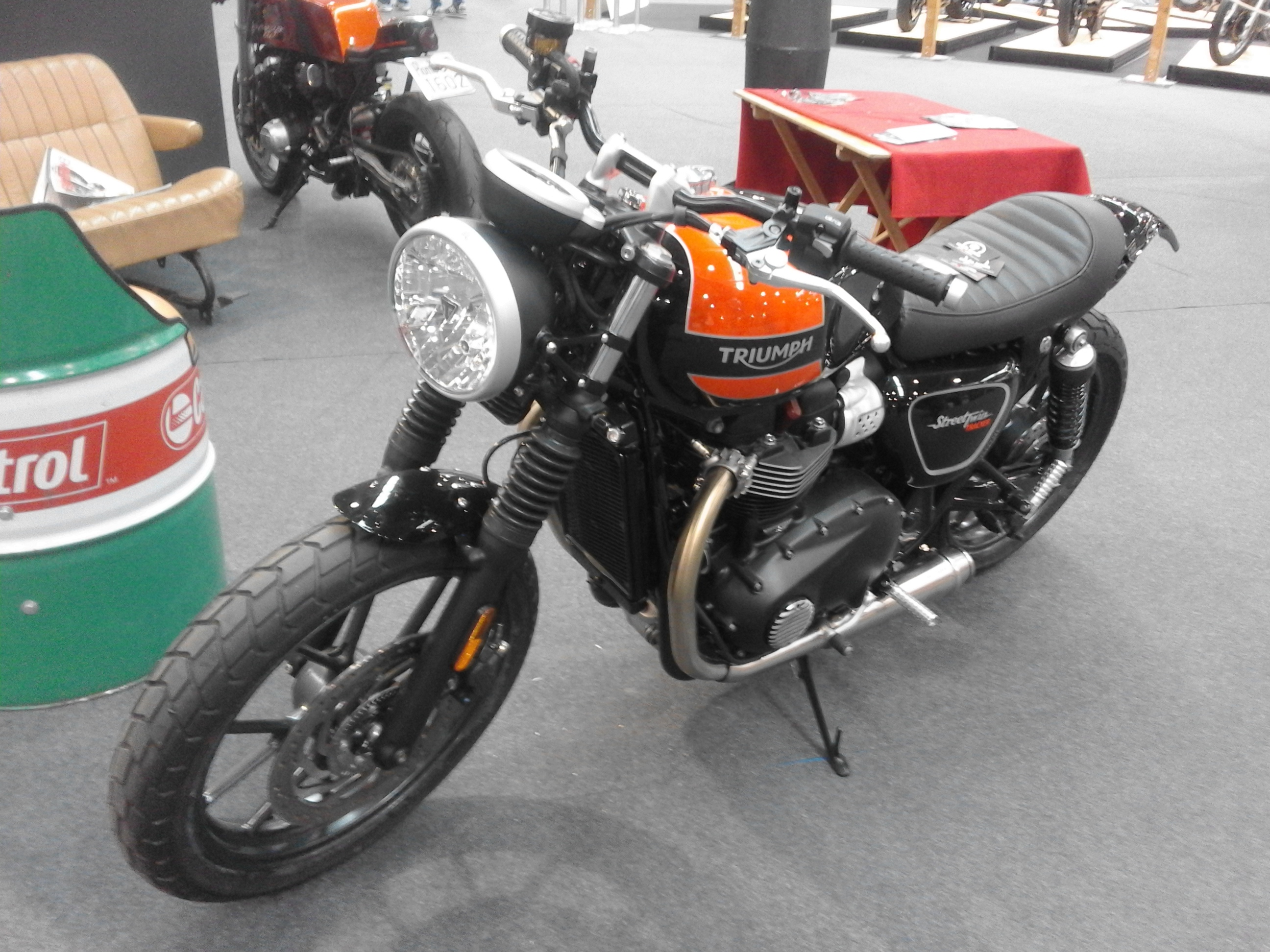 Triumph Street Twin@Motodays 2017